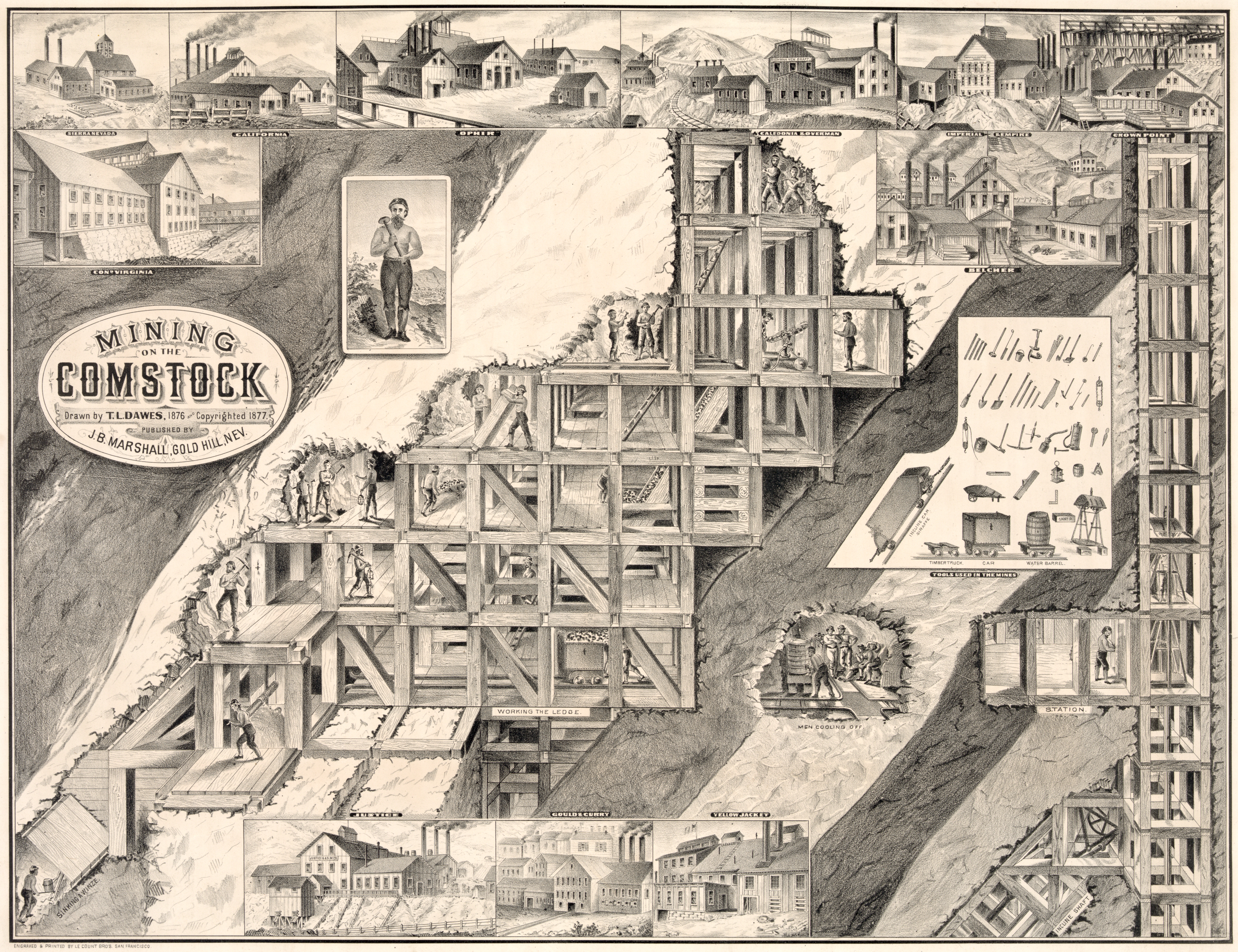 Lithograph showing various scenes from the Comstock Lode, a large silver and gold deposit worked by numerous mines in Virginia City and Gold Hill, Nevada, and the first silver strike in the United States. Depicted are the square-set timbering method first developed at the Comstock Lode, the various headframes and mills of mines, mining tools, cooling rooms, and shafts. (cropped and lightened)